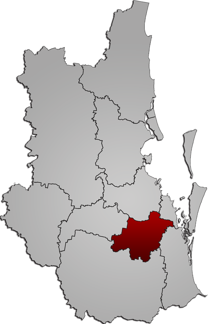 Logan City Council from 15 March, 2008